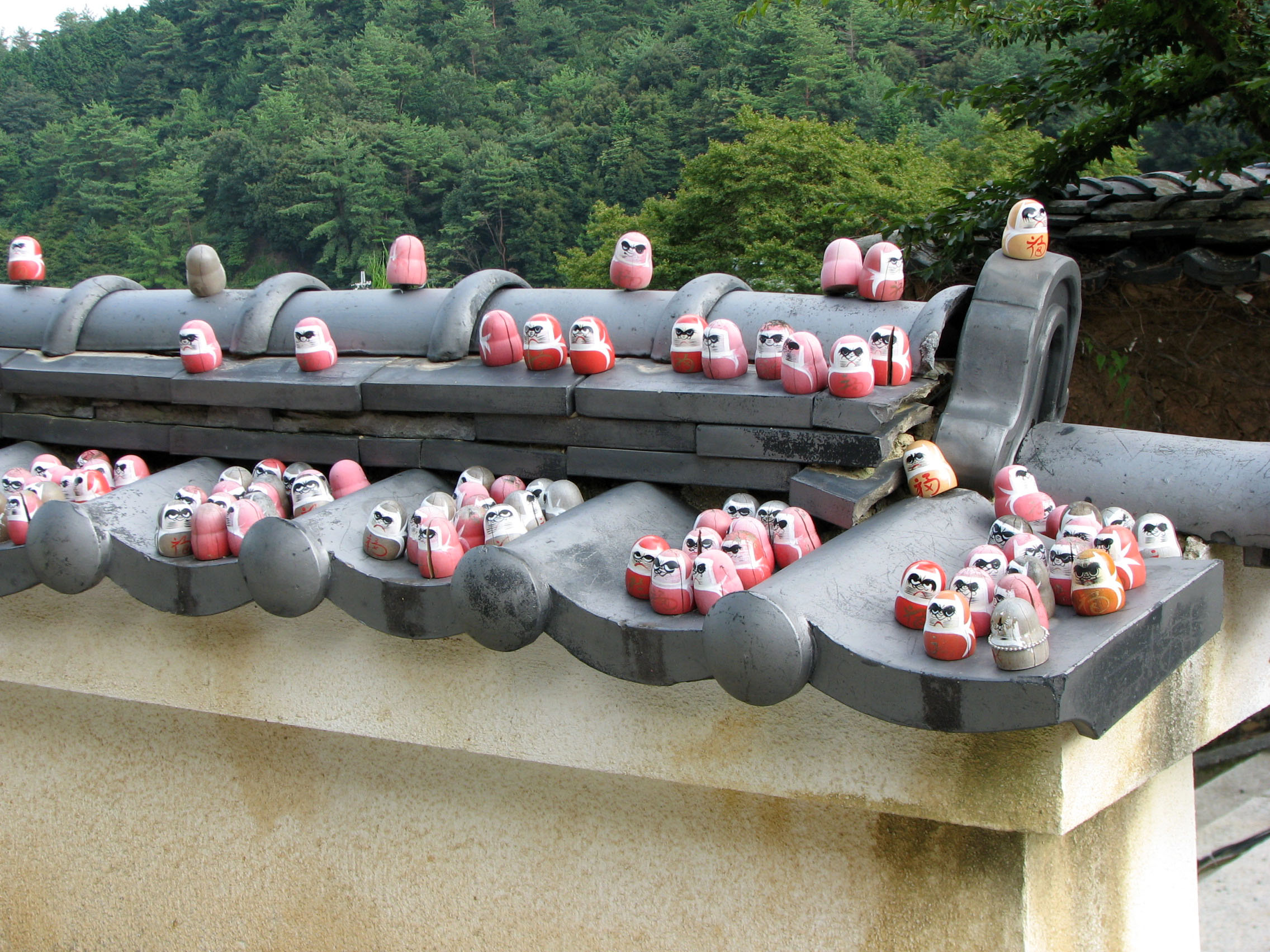 These are sold with fortunes inside them. You read your fortune (they have English ones here, a rarity) and then leave the daruma somewhere on the temple grounds.